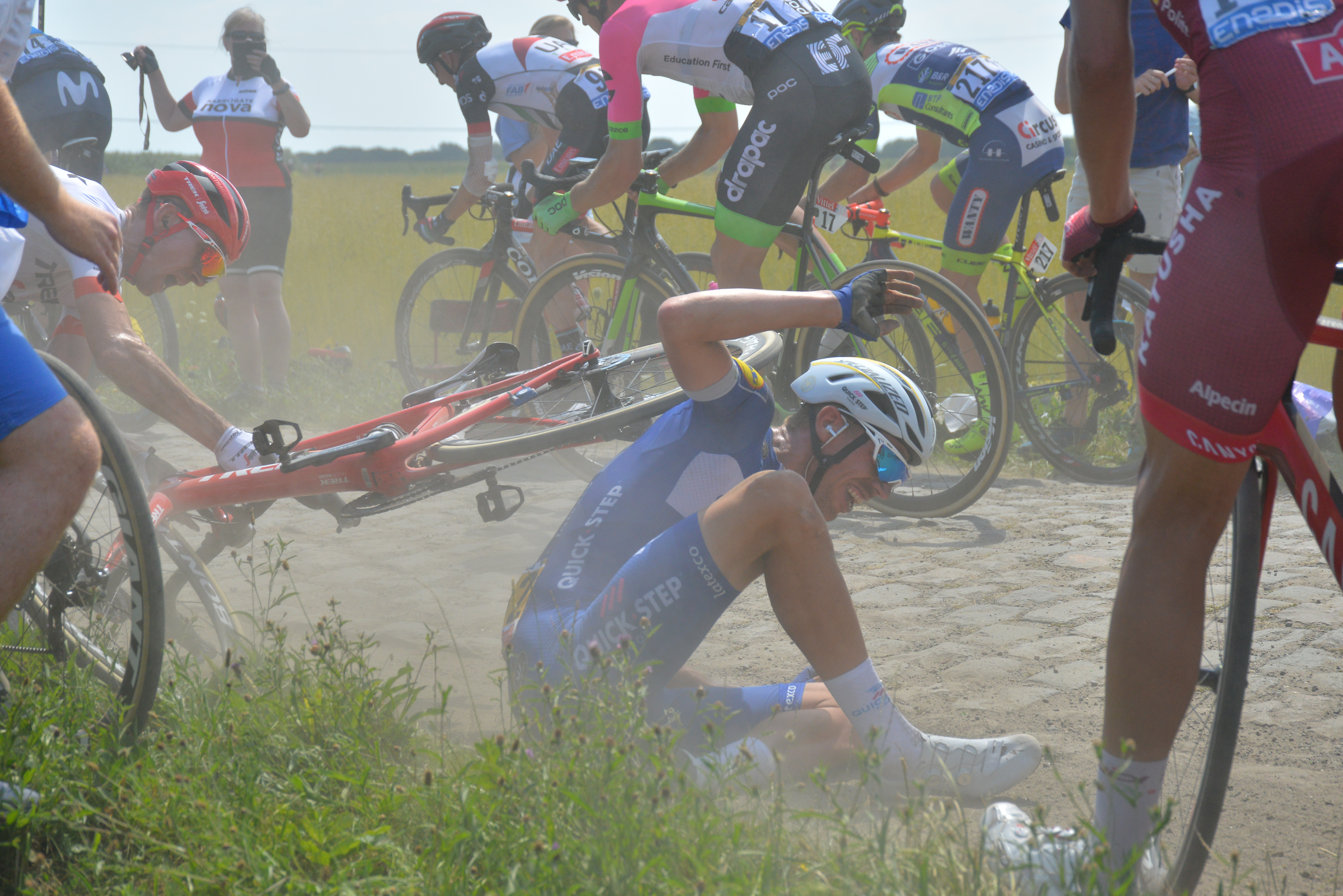 2018 Tour de France – stage 9 sector 9